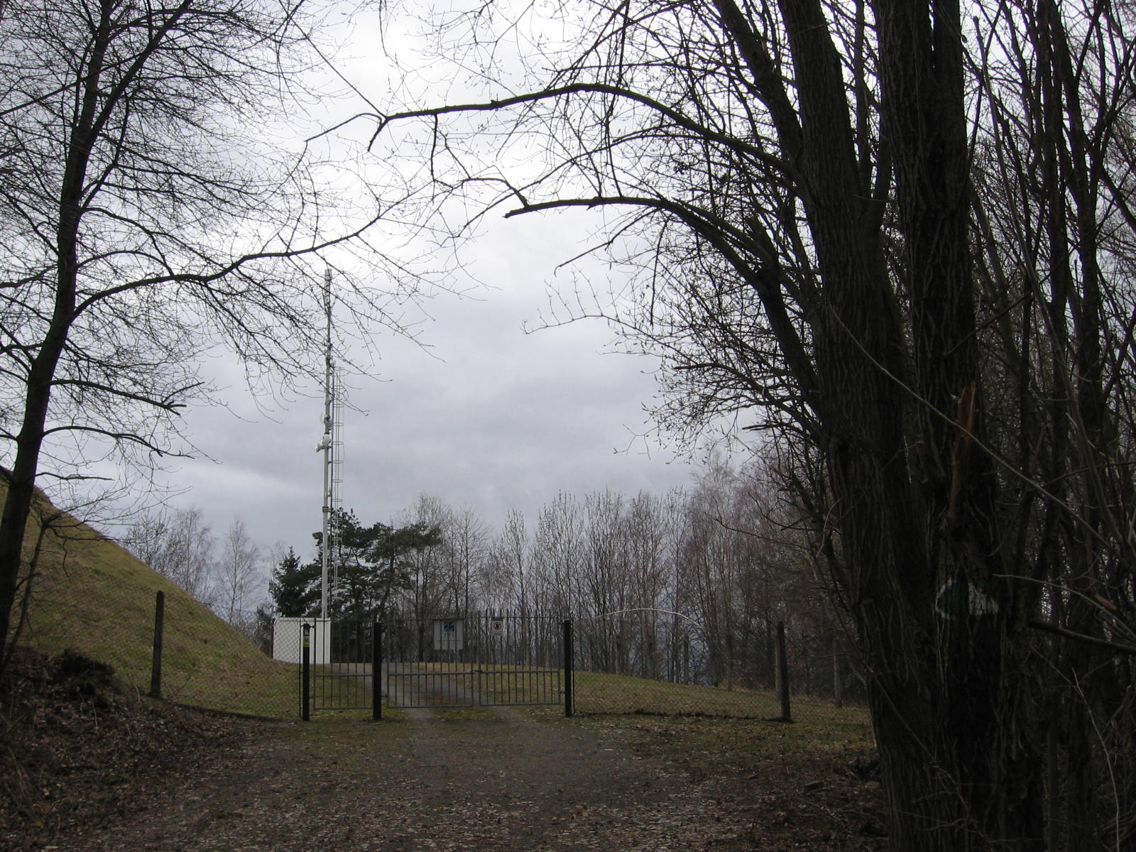 Gallows Hill (Prachatice)